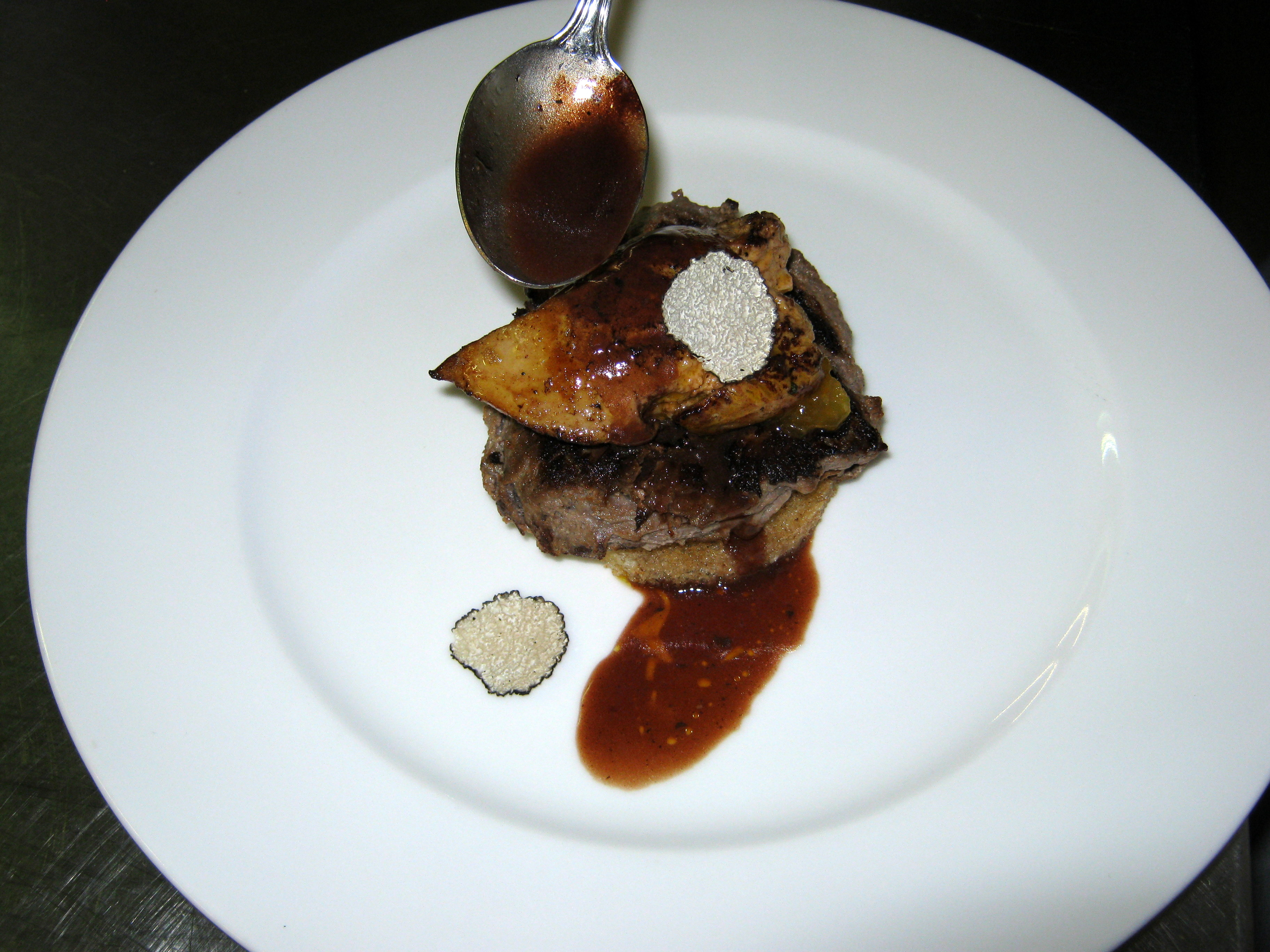 French main dish composed of: bread crouton, filet mignon, foie gras and black truffle slices with Madeira wine sauce.